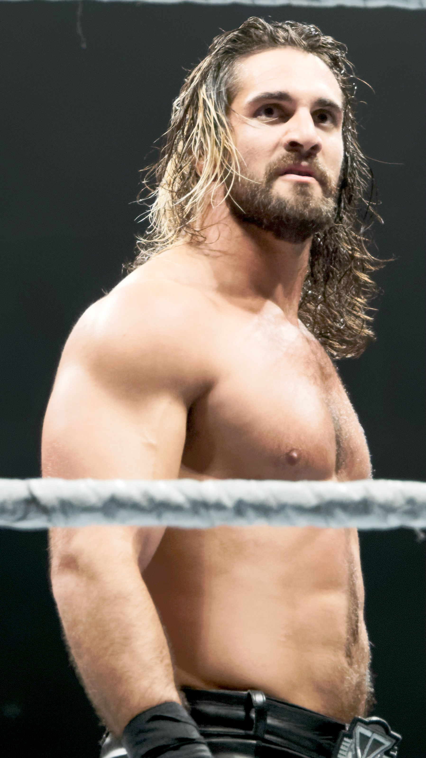 Seth Rollins in April 2015 during a WWE live event.